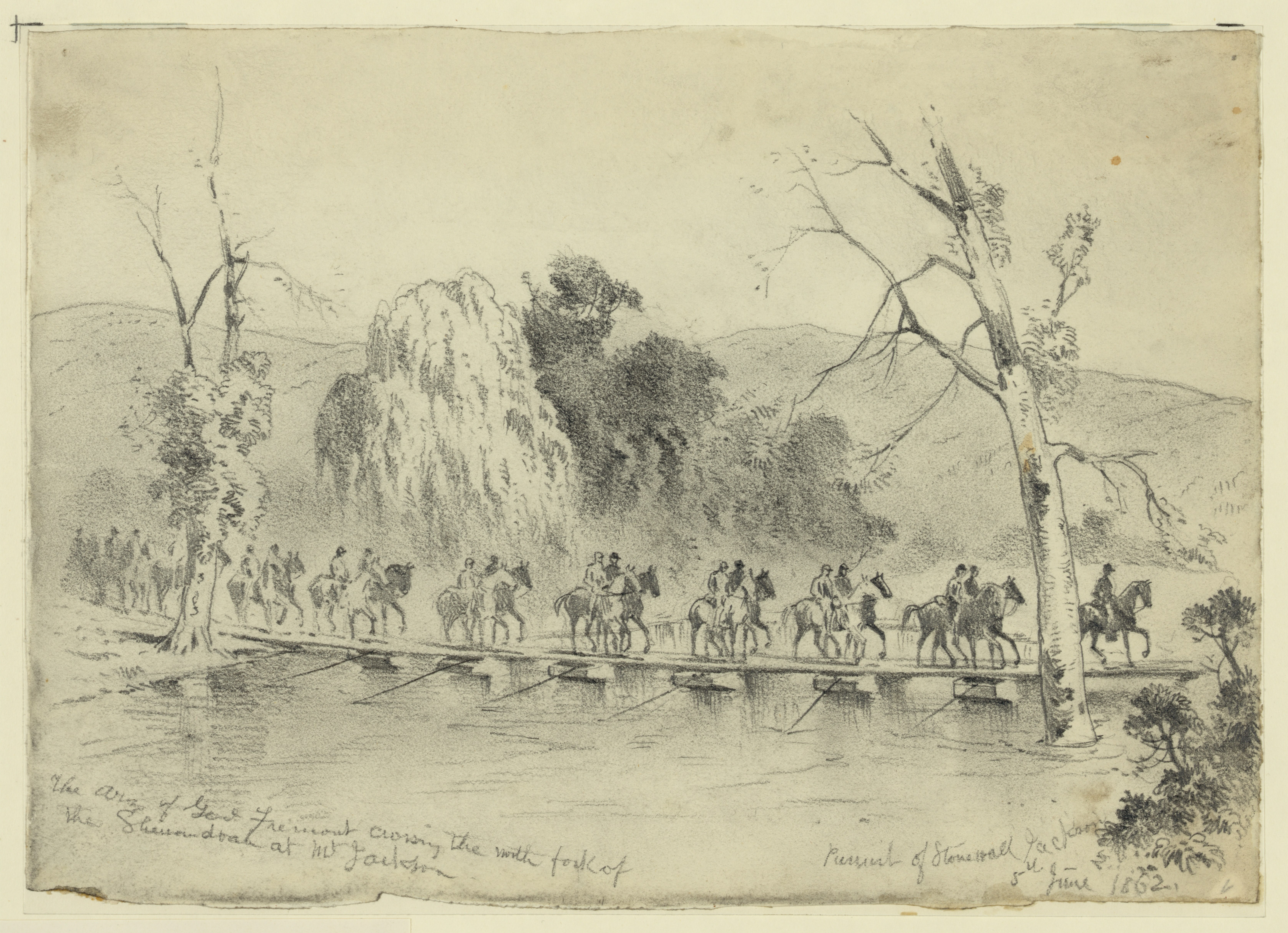 Title: The army of General Fremont crossing the north fork of the Shenandoah at Mt. Jackson--Pursuit of Stonewall Jackson Abstract/medium: 1 drawing : pencil.